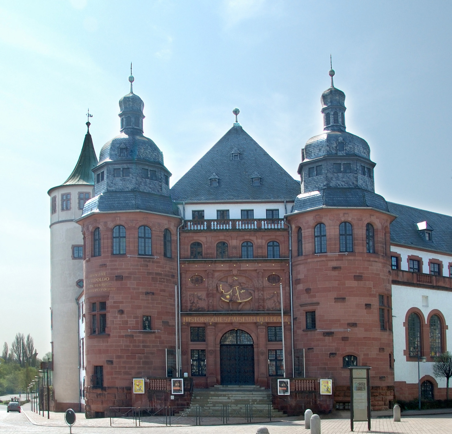 "Historisches Museum der Pfalz" (Palatinate Museum of History) of Speyer, Germany)